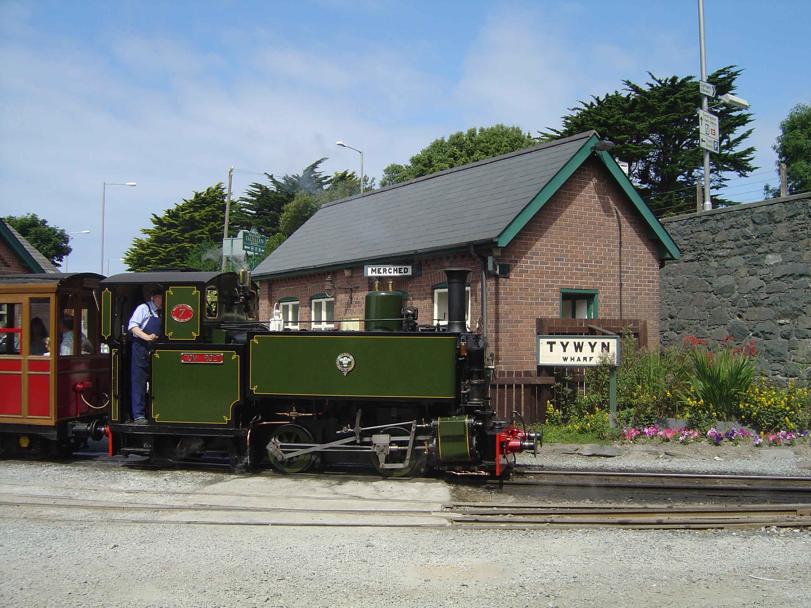 Talyllyn Railway Number 7: Tom Rolt at Tywyn Wharf